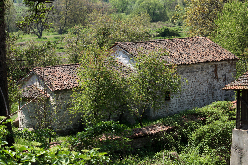 16th century St. Nicola church from Maritsa village, Bulgaria